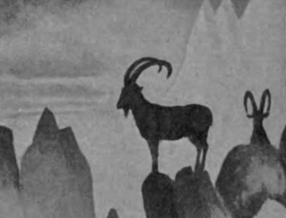 Ibex shapes